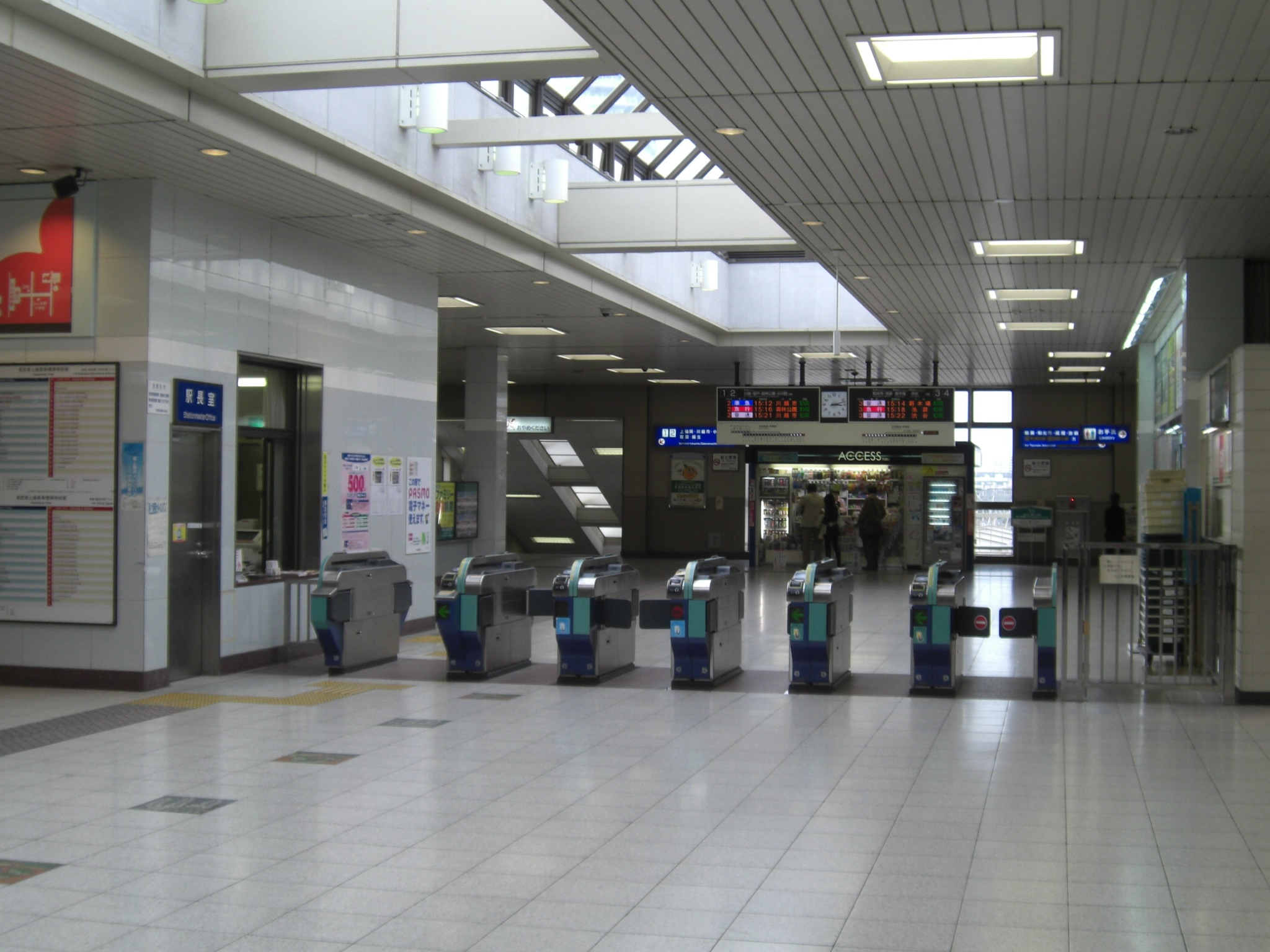 Ticket barriers at Fujimino Station on the Tobu Tojo Line in Saitama Prefecture, Japan